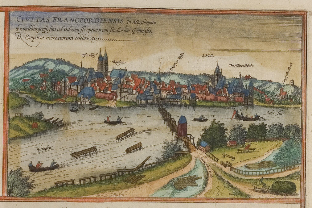 View of the city of Frankfurt (Oder). Colorized copperplate engraving by Frans Hogenberg from the book "Civitates Orbis Terrarum" from 1572